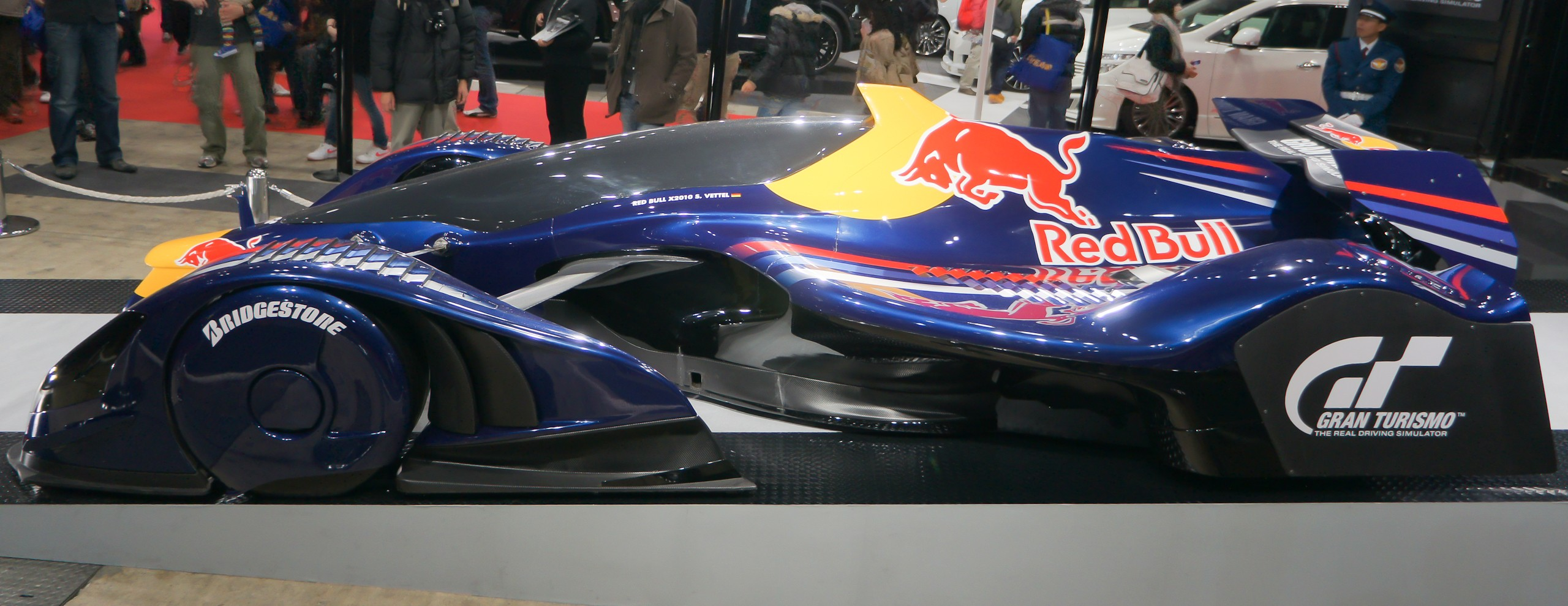 Tokyo Auto Salon 2012: Red Bull X2010